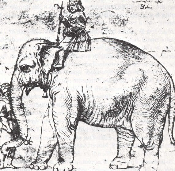 Hanno, Pope Leo's X. elefant (drawing: pen and ink)